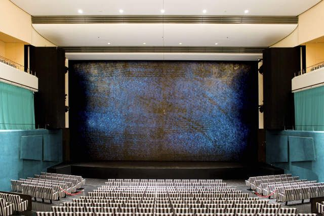 Großer Saal / Eiserner Vorhang